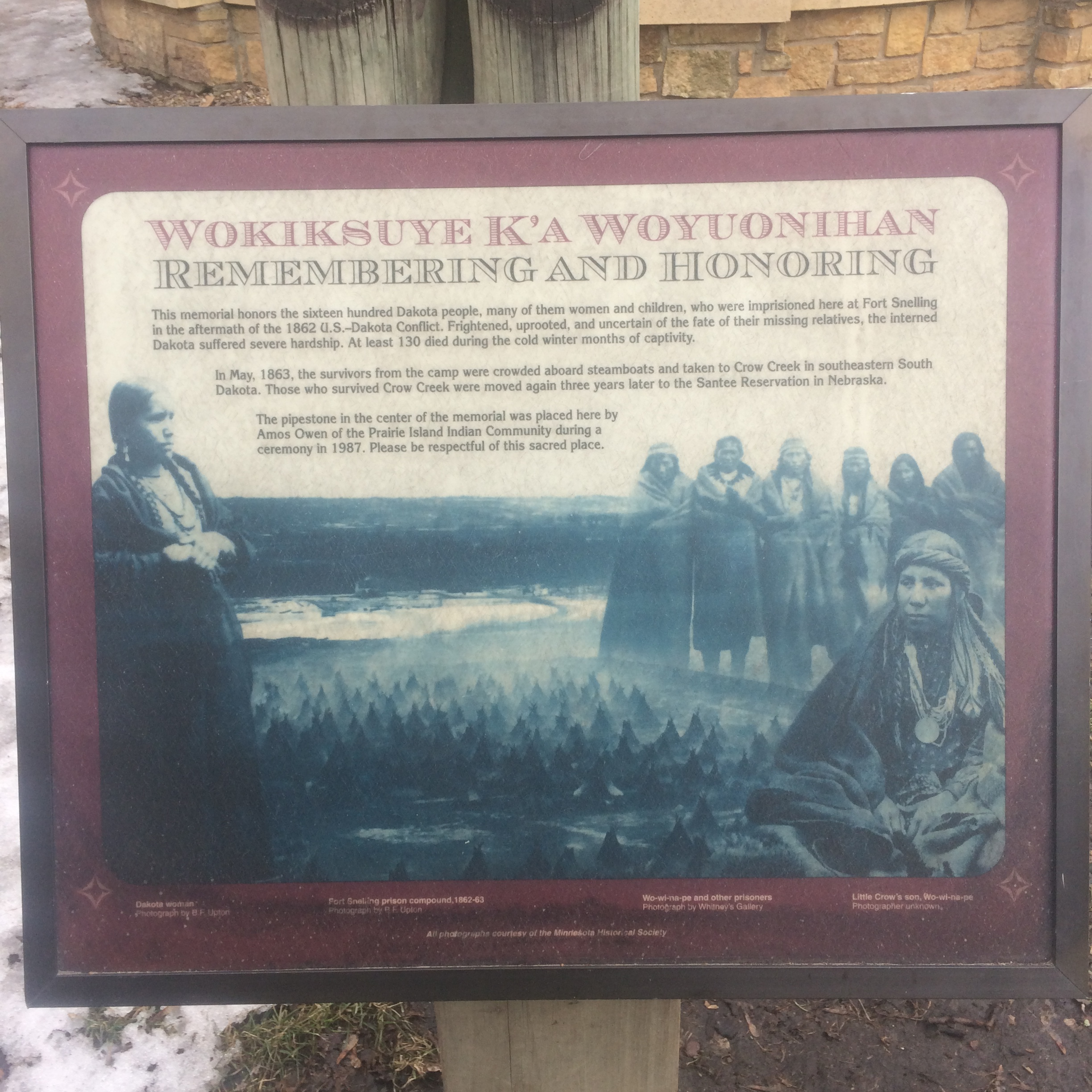 A board remembering and honoring the Dakota people that were interned at Fort Snelling, both living and dead